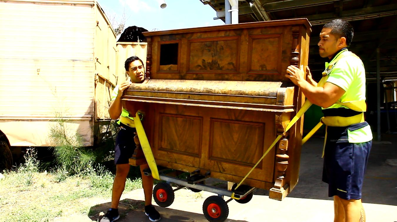 Removalists moving an upright piano with the trolly, and heavy straps